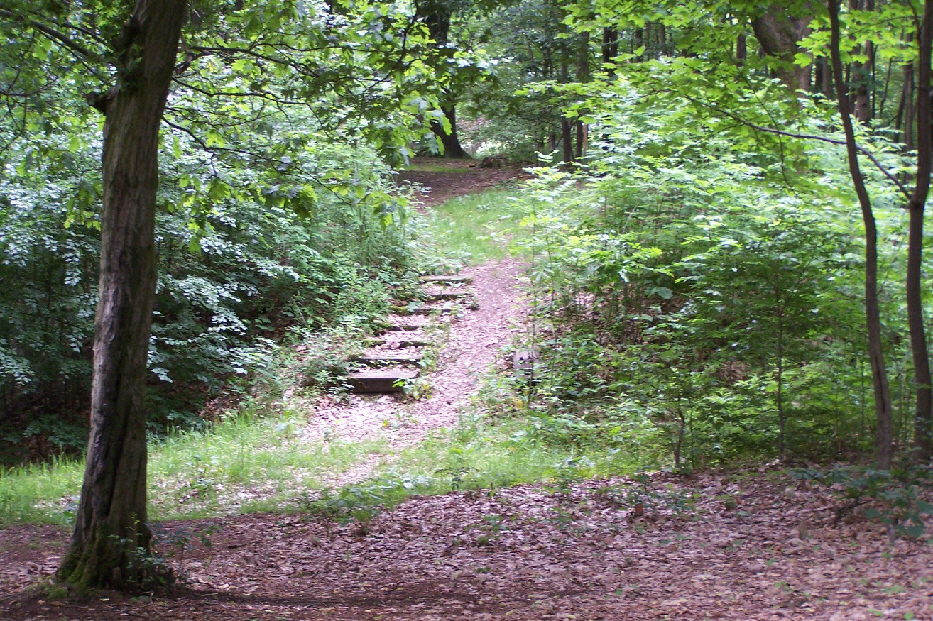 At the castle hill in Brotterode.